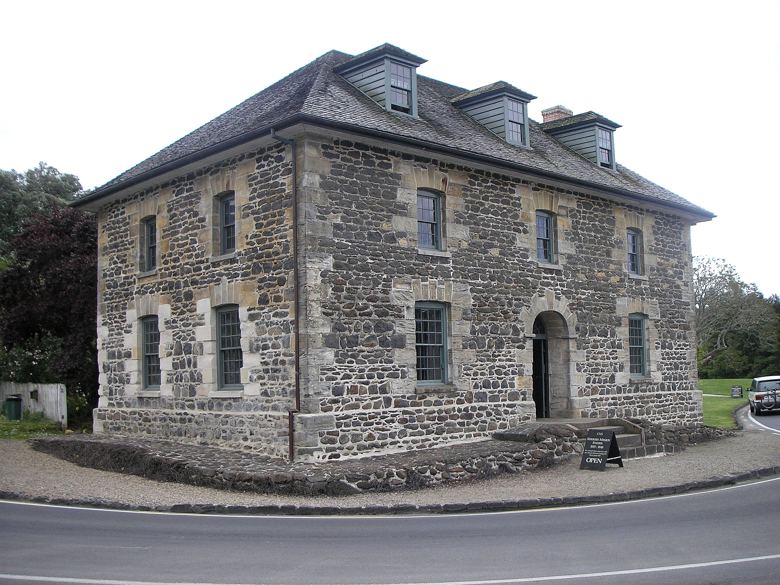 photographed by author 2006